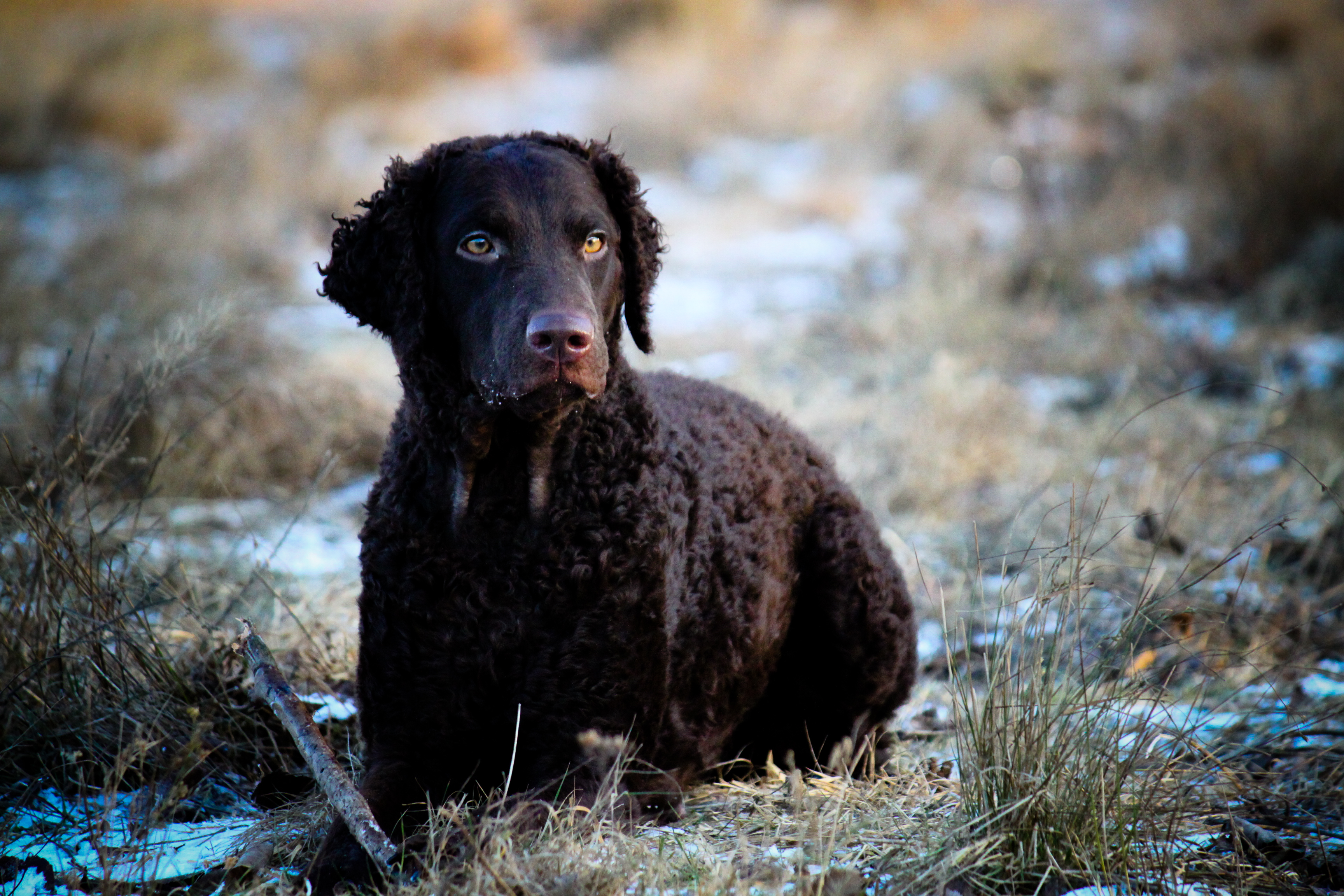 Curly Coated Retriever